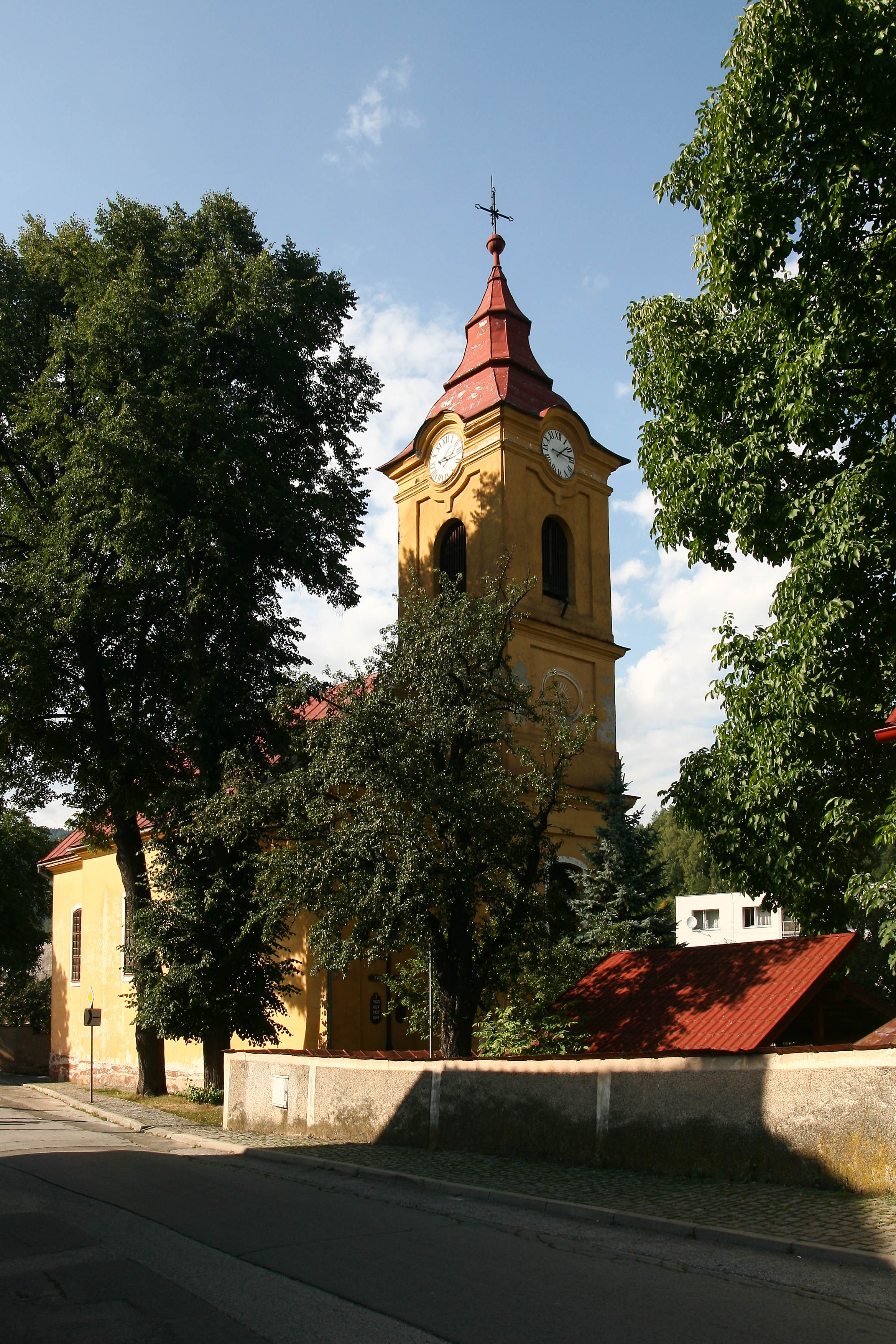 St. Francis Xavier Church in Dobšiná, Slovakia.